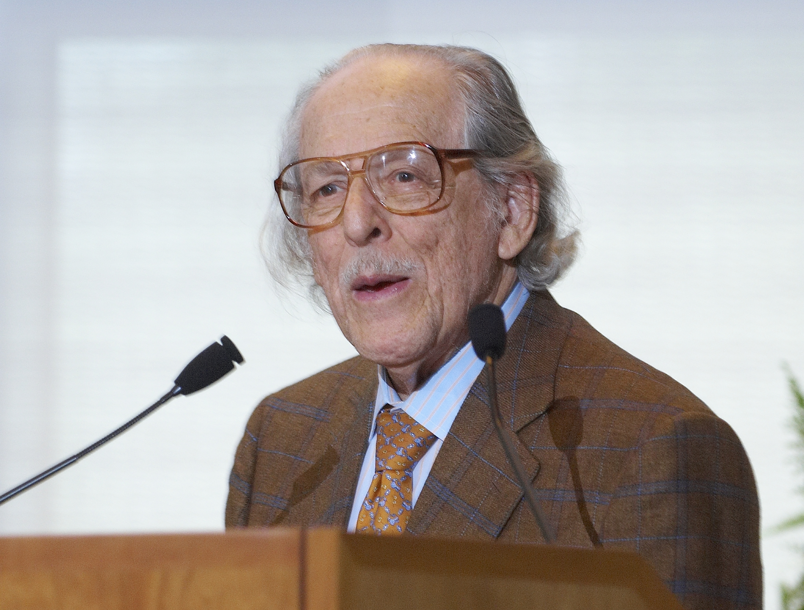 Photograph of Eugene Garfield, recipient of the 2007 Richard J. Bolte Sr. Award, at Heritage Day, May 9, 2007, at the Chemical Heritage Foundation.